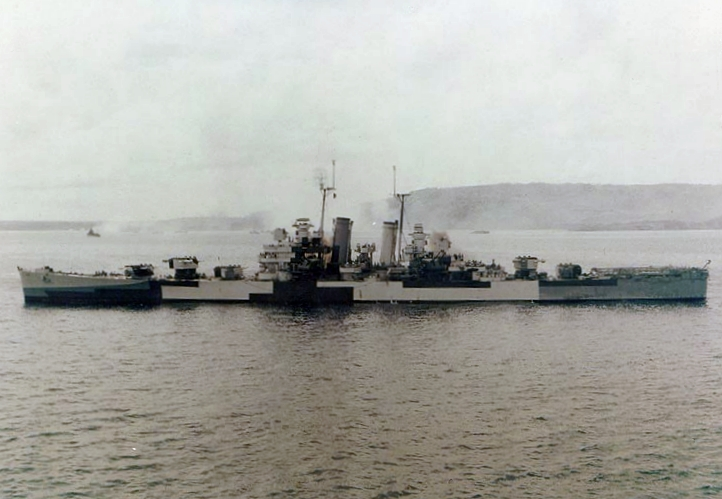 The U.S. Navy light cruiser USS St. Louis (CL-49) bombarding Japanese positions on Guam, 21 July 1944. She is painted in Camouflage Measure 32, Design 2c.